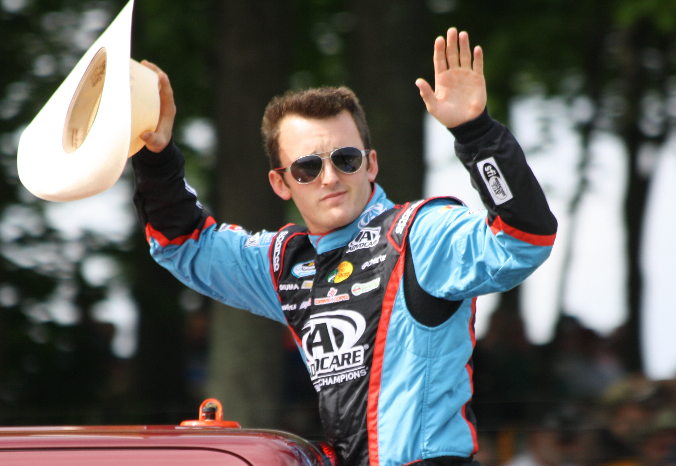 NASCAR driver Austin Dillon at the 2013 Johnsonville Sausage 200 Nationwide race at Road America.